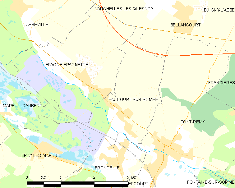 Map of French municipality Eaucourt-sur-Somme